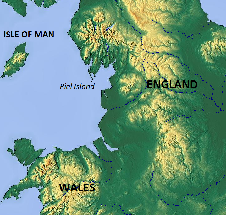 Relief location map of Piel Island, UK